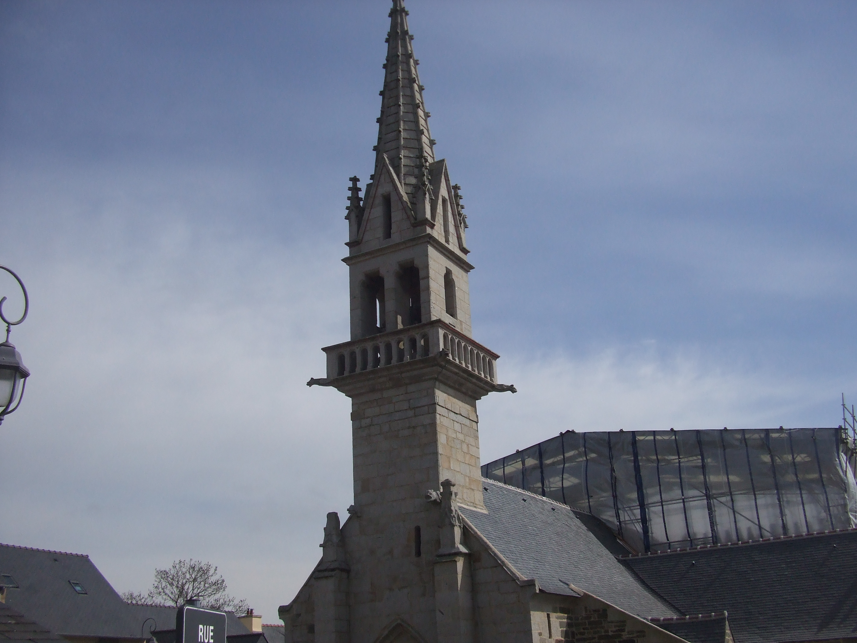 church Saint-Trémeur kergloff